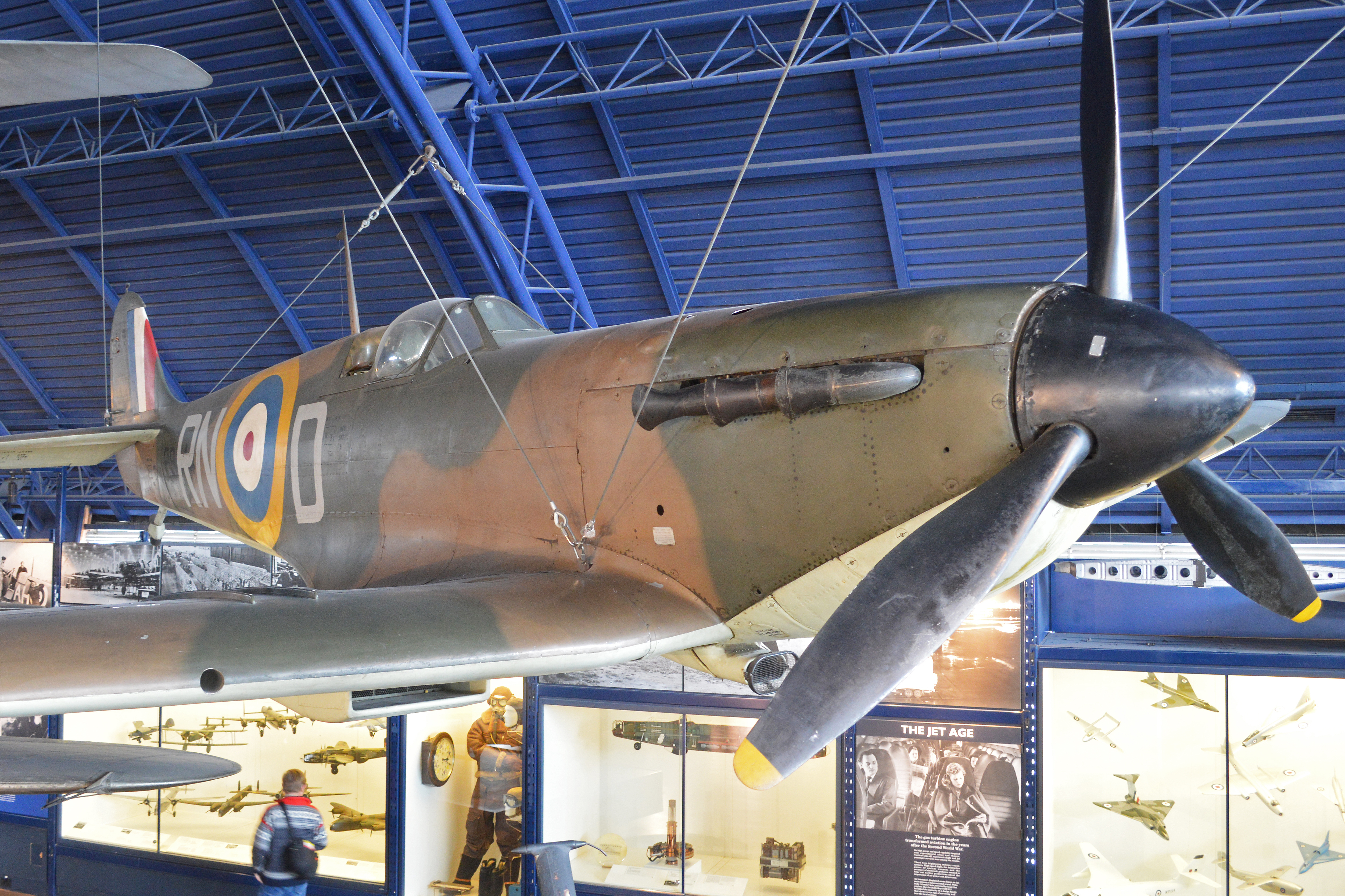 c/n 6S.30613. First flew 2nd April 1940, it was operational with 72sqn during the Battle of Britain. Saved by the Air Historical Branch in 1944. After storage, and appearing in the background of the 1952 movie ‘Angels One Five’, it joined the Science Museum in 1954. It is on display in the ‘Flight’ Hall wearing genuine 72sqn markings. Science Museum, South Kensington, London. 16-6-2015